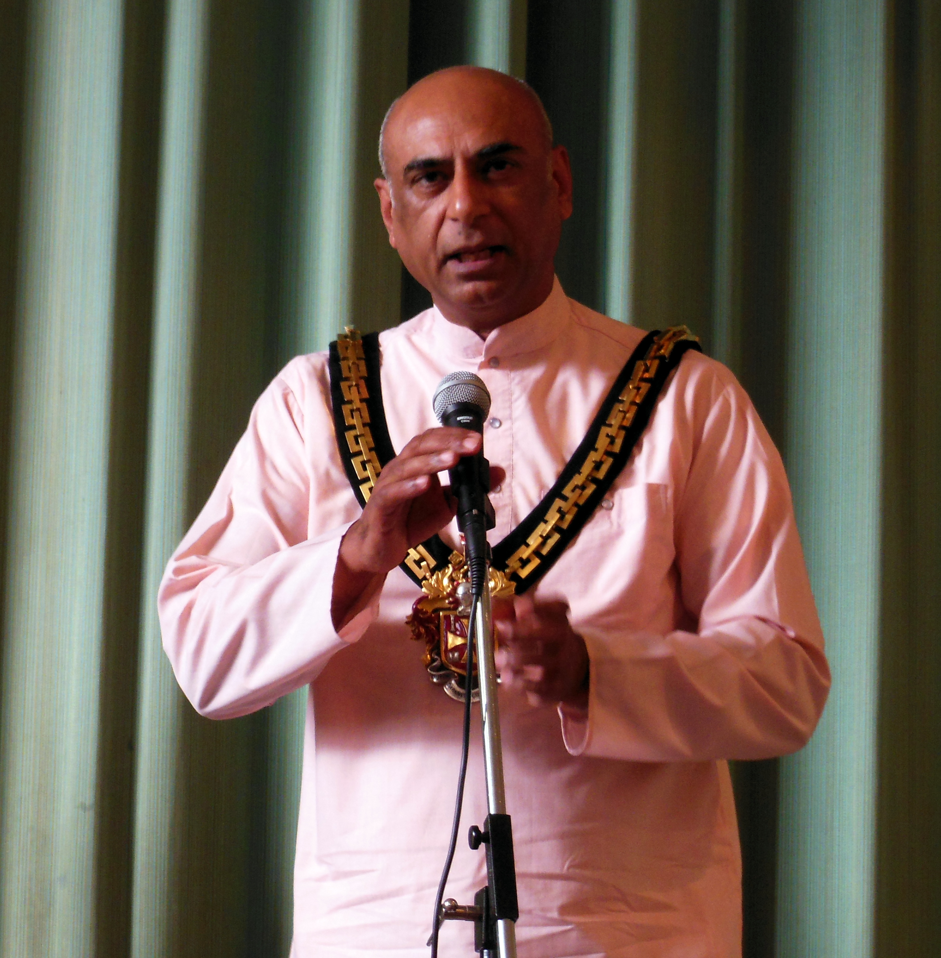 Milkinder Jaspal, Mayor of Wolverhampton, speaking at a public event in March 2014.